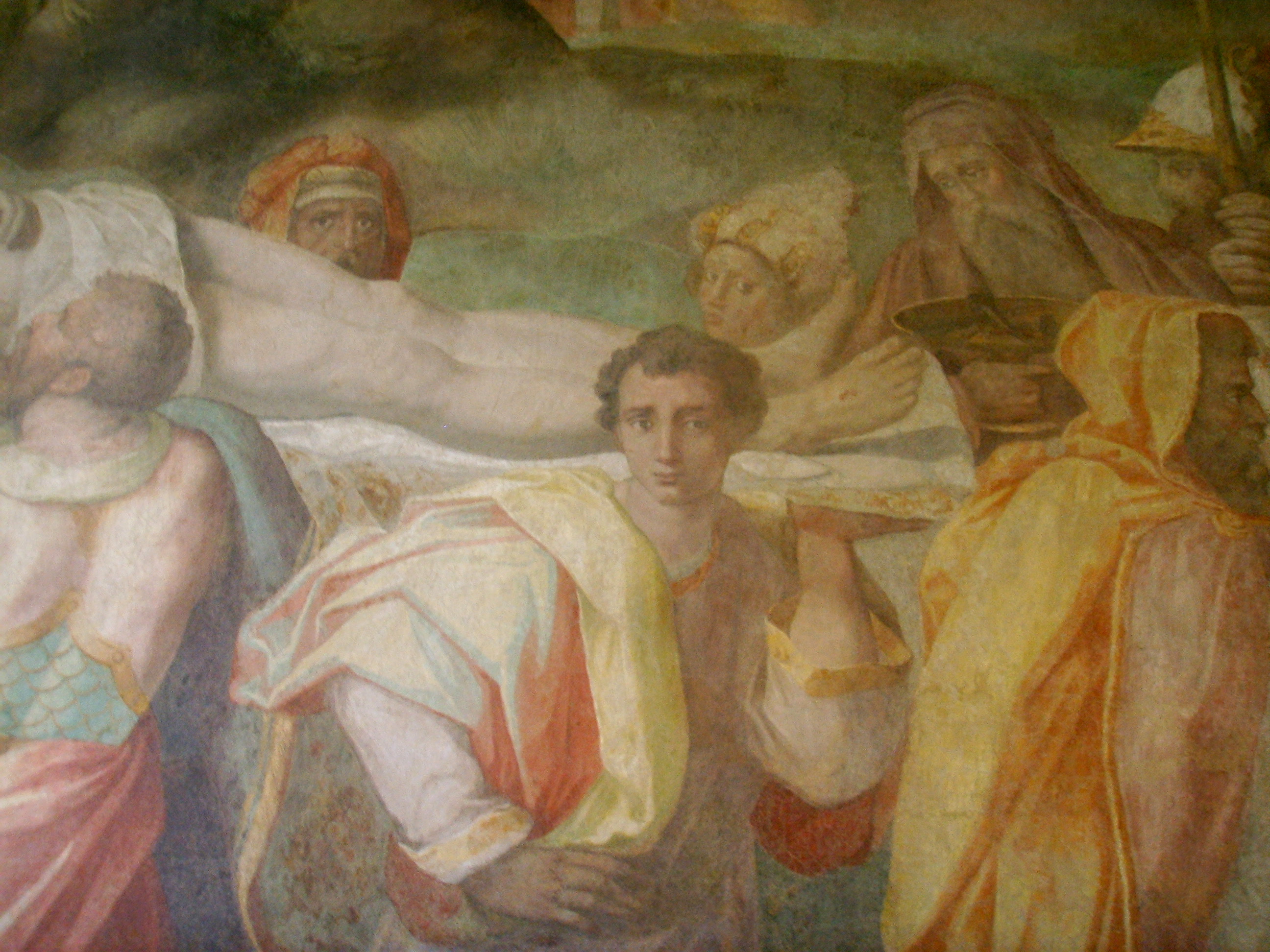 Chiostro Grande in Santa Maria Novella church in Florence, Italy Detail of a fresco Alessandro Allori (1535–1607) Alternative names Alessandro di Christofano di Lorenzo Allori; Il Bronzino (II); Alessandro del Bronzino; Alessandro Bronzino AlloriDescriptionItalian painter, fresco painter, designer and writerDate of birth/death 3 May 1535 22 September 1607Location of birth/death Florence FlorenceWork location Florence (1552-1554), Rome (1554-1559), Florence (1560-1607), Pisa (1581)Authority control : Q333369 VIAF: 52482834 ISNI: 0000 0000 8077 3222 ULAN: 500027631 LCCN: nr92024249 WGA: ALLORI, Alessandro WorldCat creator QS:P170,Q333369